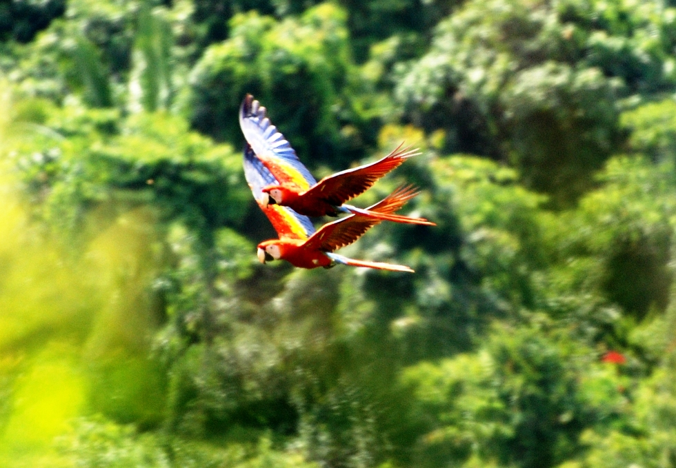 Scarlet Macaw at Red Bank, Belize